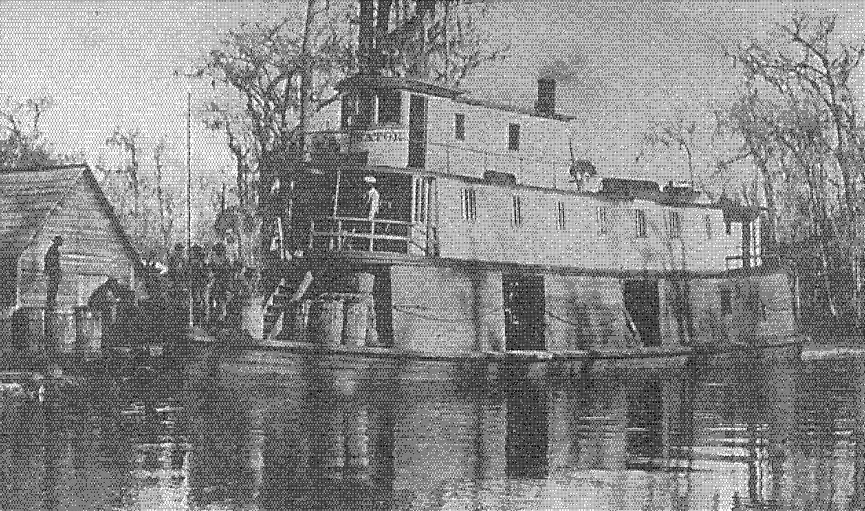 The paddlesteamer Alligator from 1890 stereoview card.